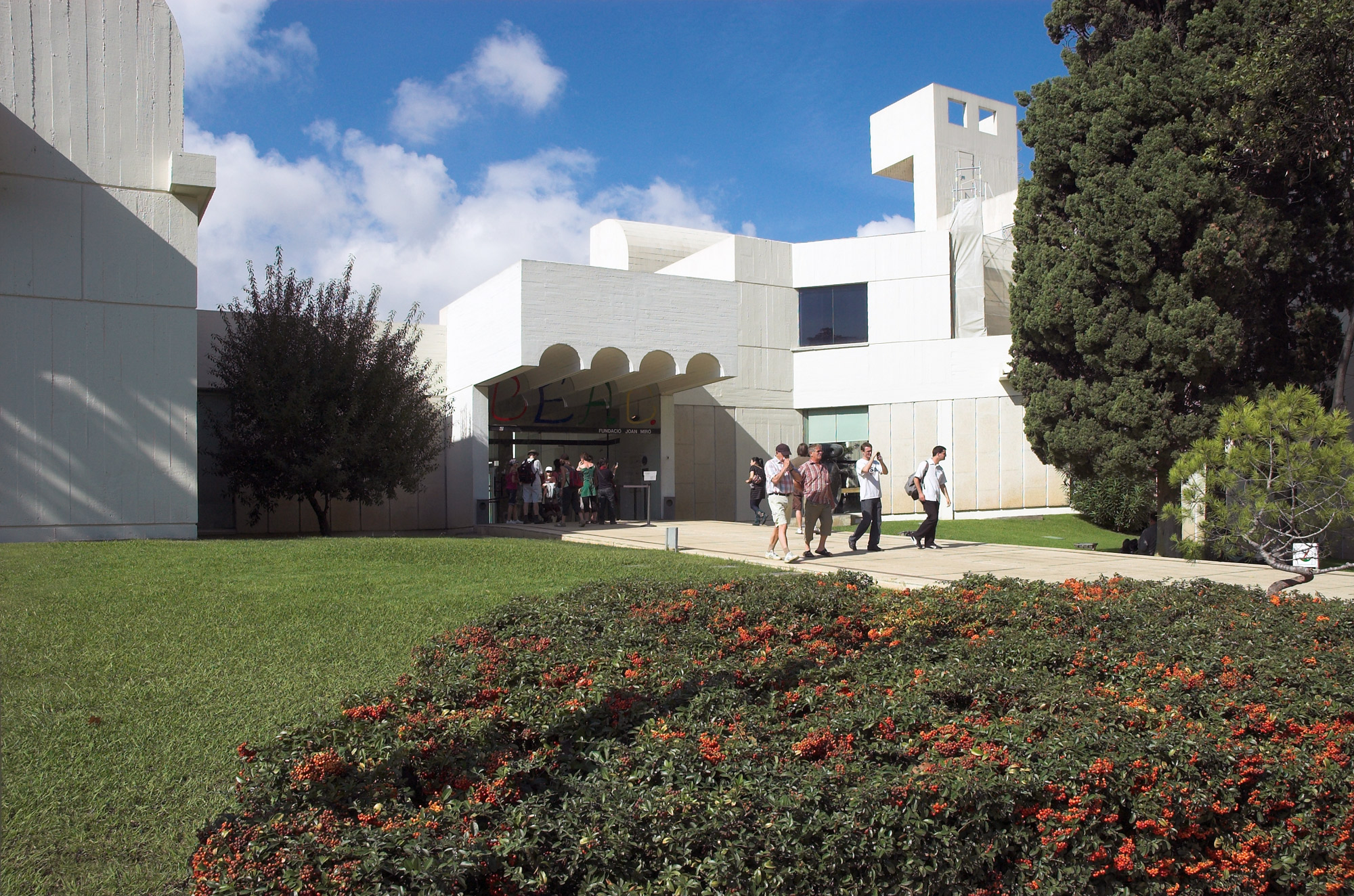 Fundacion Miró Barcelona from Montjuïc entrance area